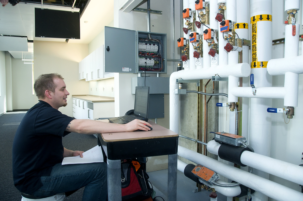 A technician checks the readings on several gauges.